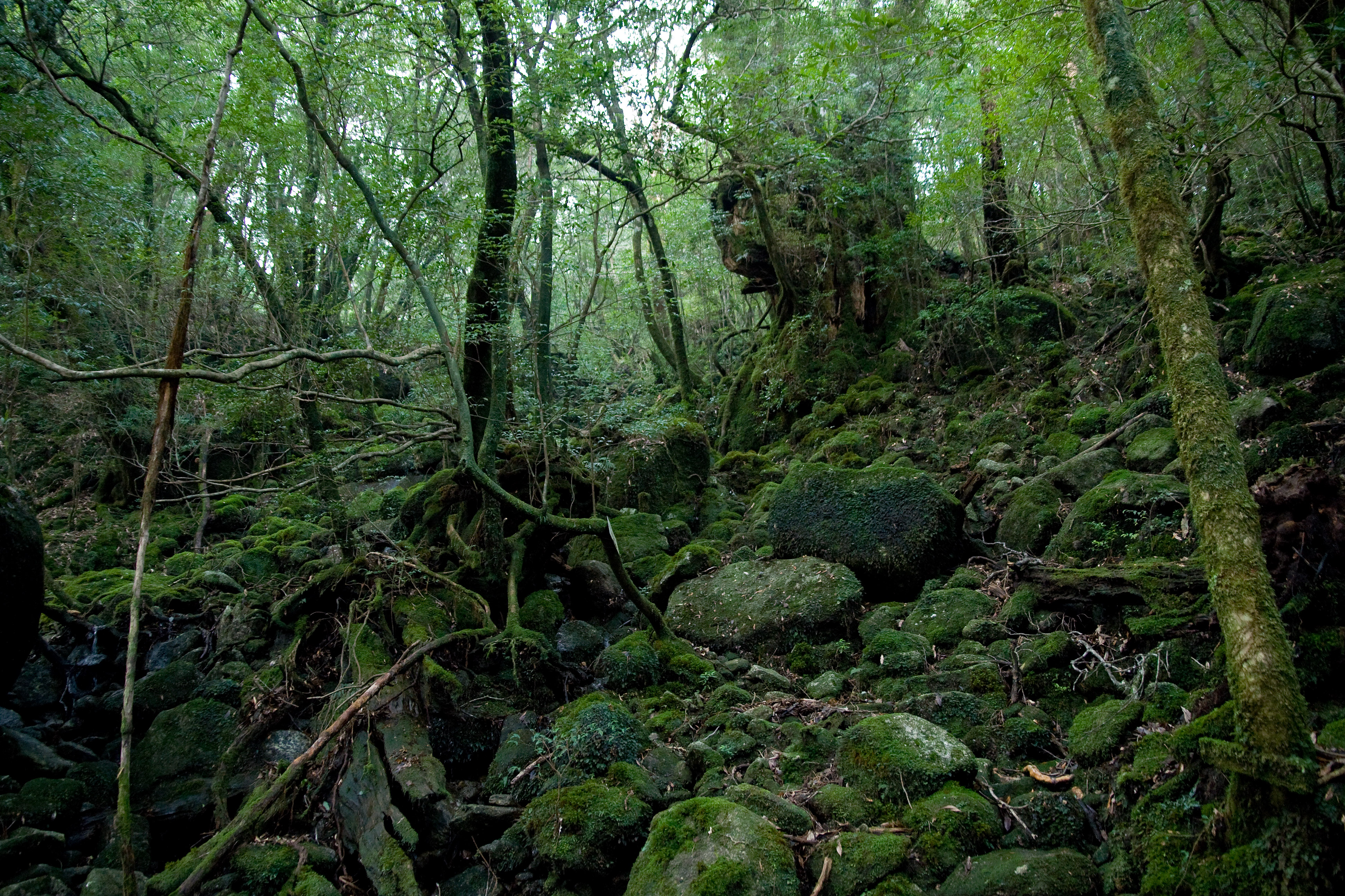 Forest in Shiratani Unsui Gorge, Yakushima, Kagoshima Pref., Japan.